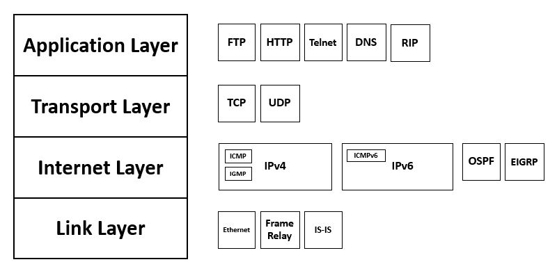 نموذج الإنترنت وجزء من حزمة البروتوكولات الموافقة.